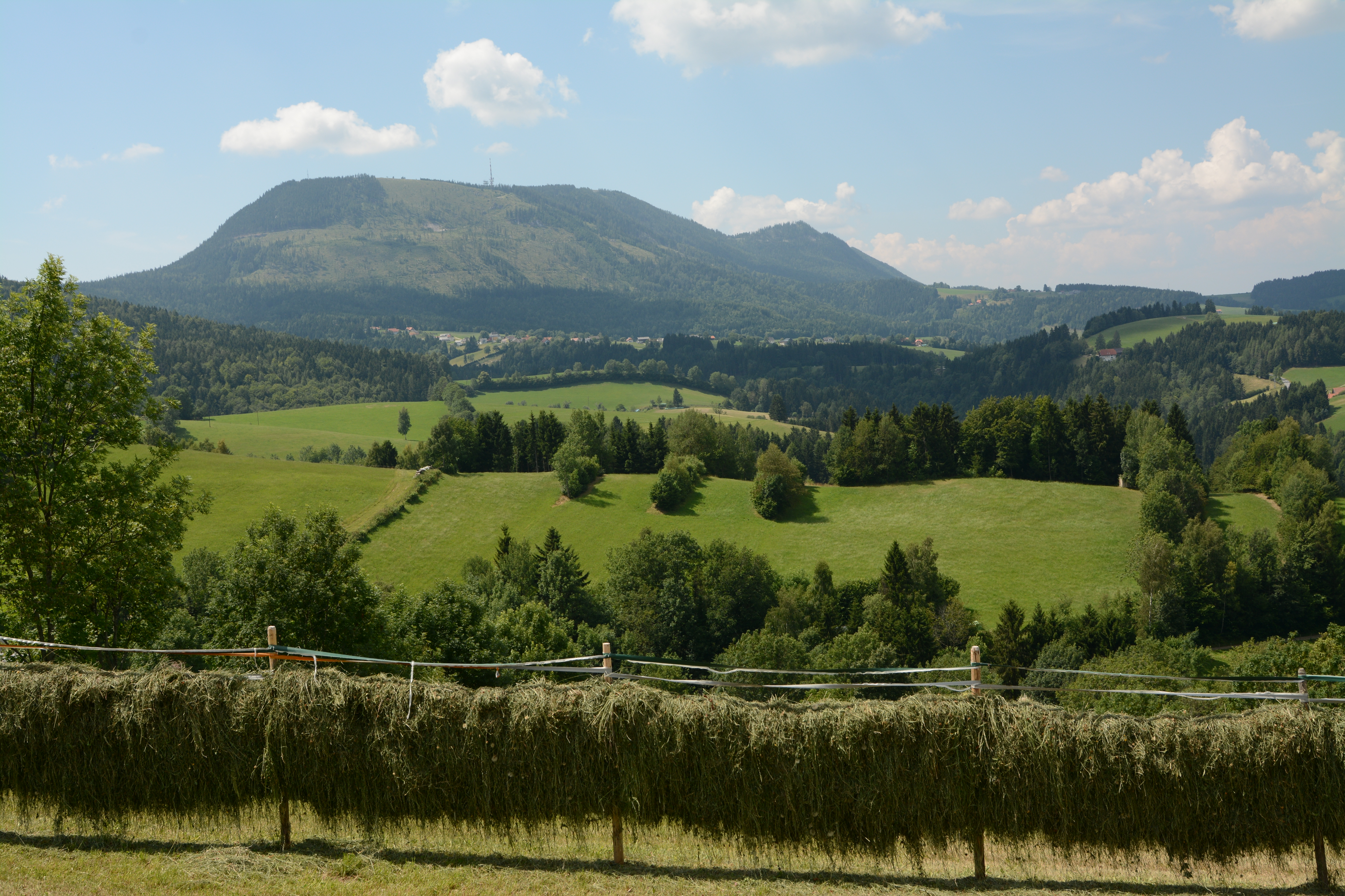 Schöckl